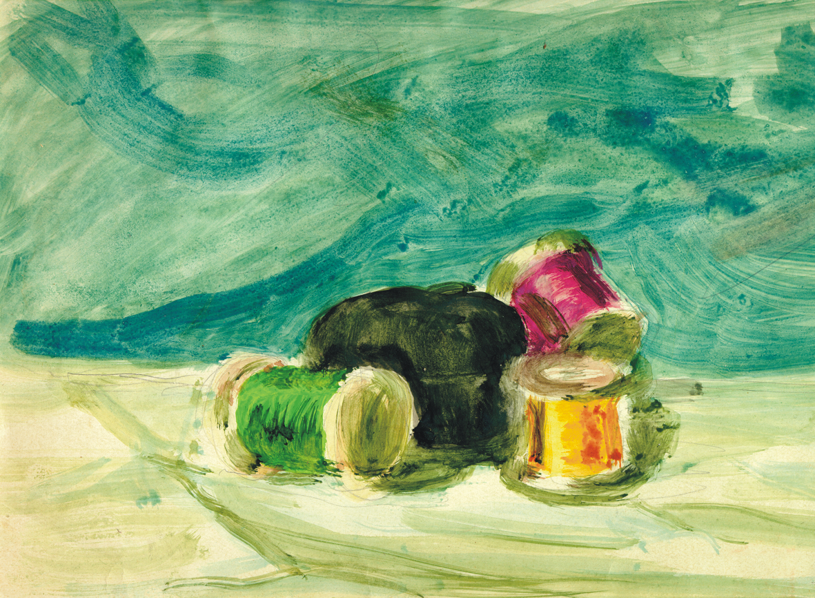 M. Schultz. Reels. 1973.Gouache